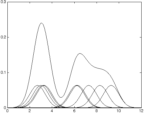 Kernel density estimator of one-dimensional random variable